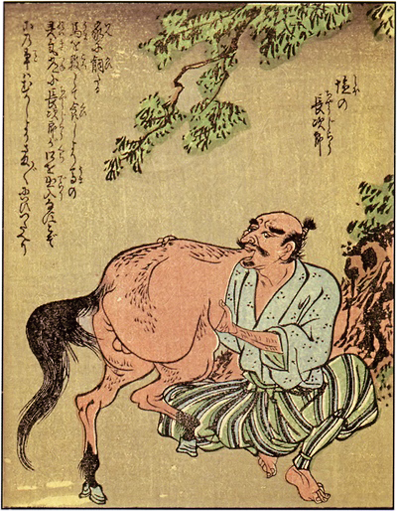 Shio-no-Chōji (塩の長司) from the Ehon Hyaku Monogatari (絵本百物語)